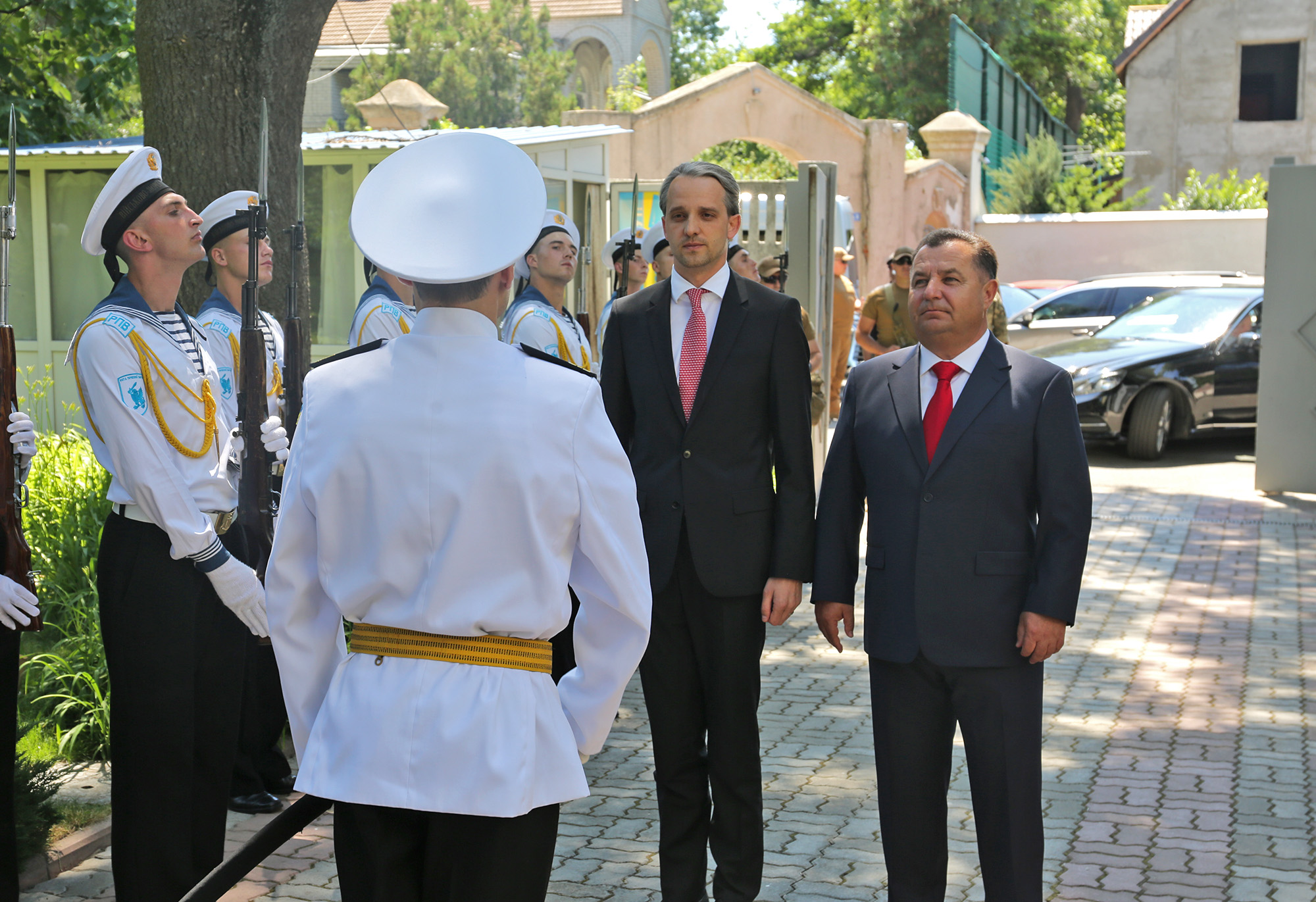 The Ukrainian and Moldovan Defense Ministers in Odessa.